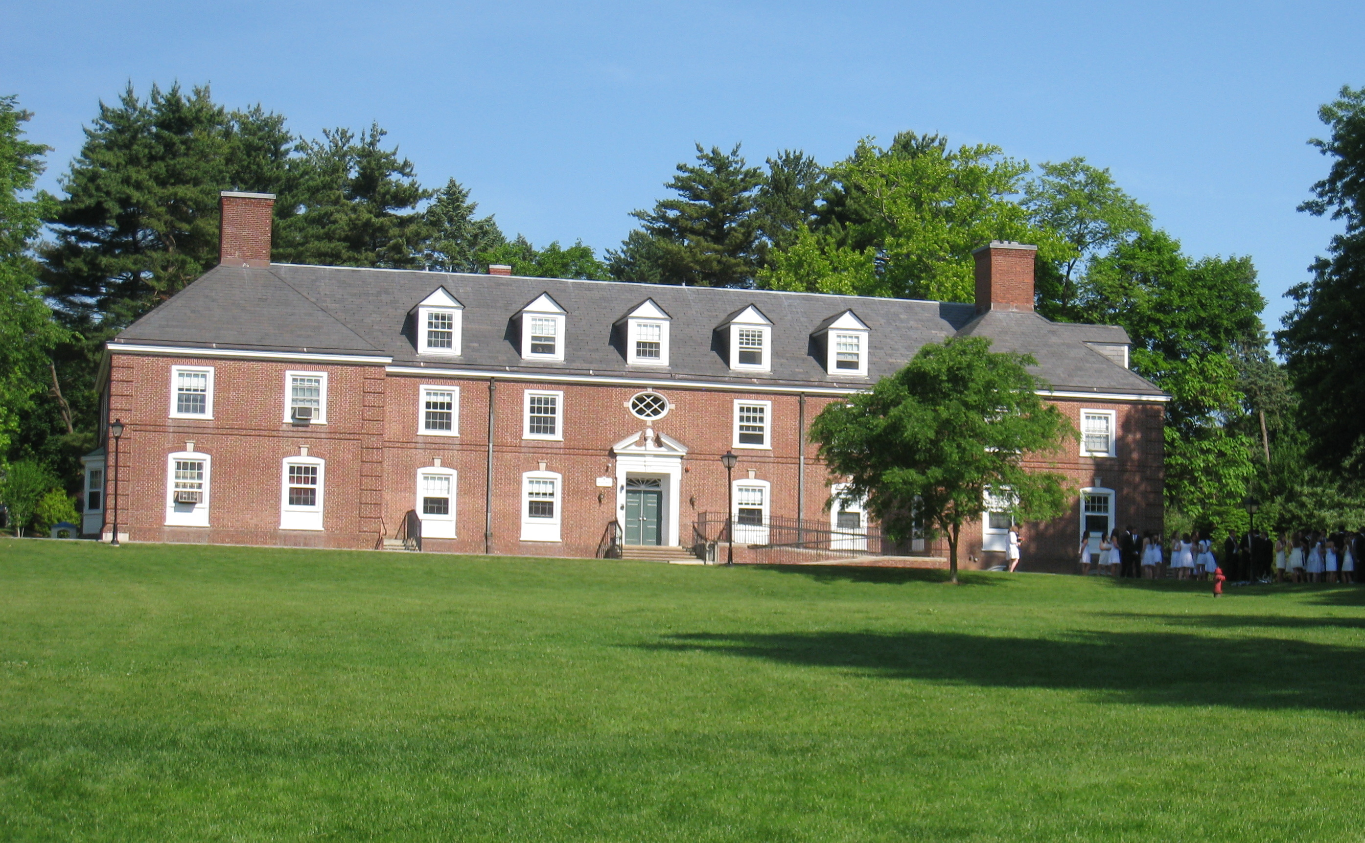 Nichols (dorm) - Choate Rosemary Hall, Wallingford, Connecticut, USA.